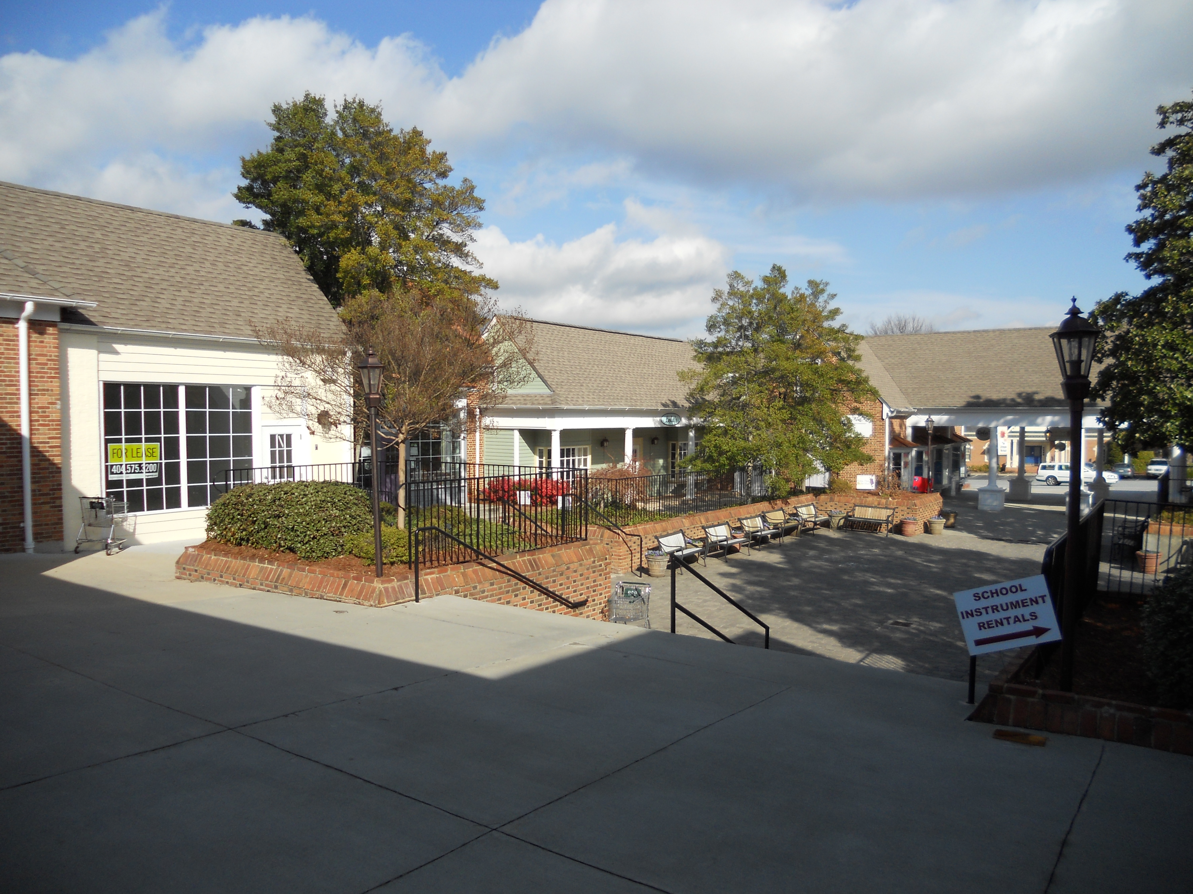 Dunwoody Village in Dunwoody, Georgia